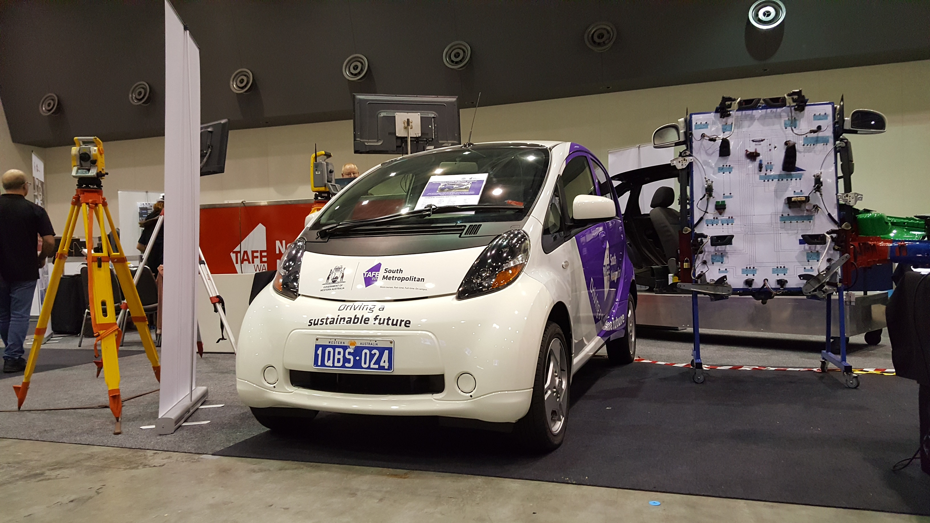 South Metropolitan TAFE's Mitsubishi i-MiEV, registered as 1QBS024; on display to the public during the 2019 SkillsWest Carers Expo at the Perth Convention & Exhibition Centre.